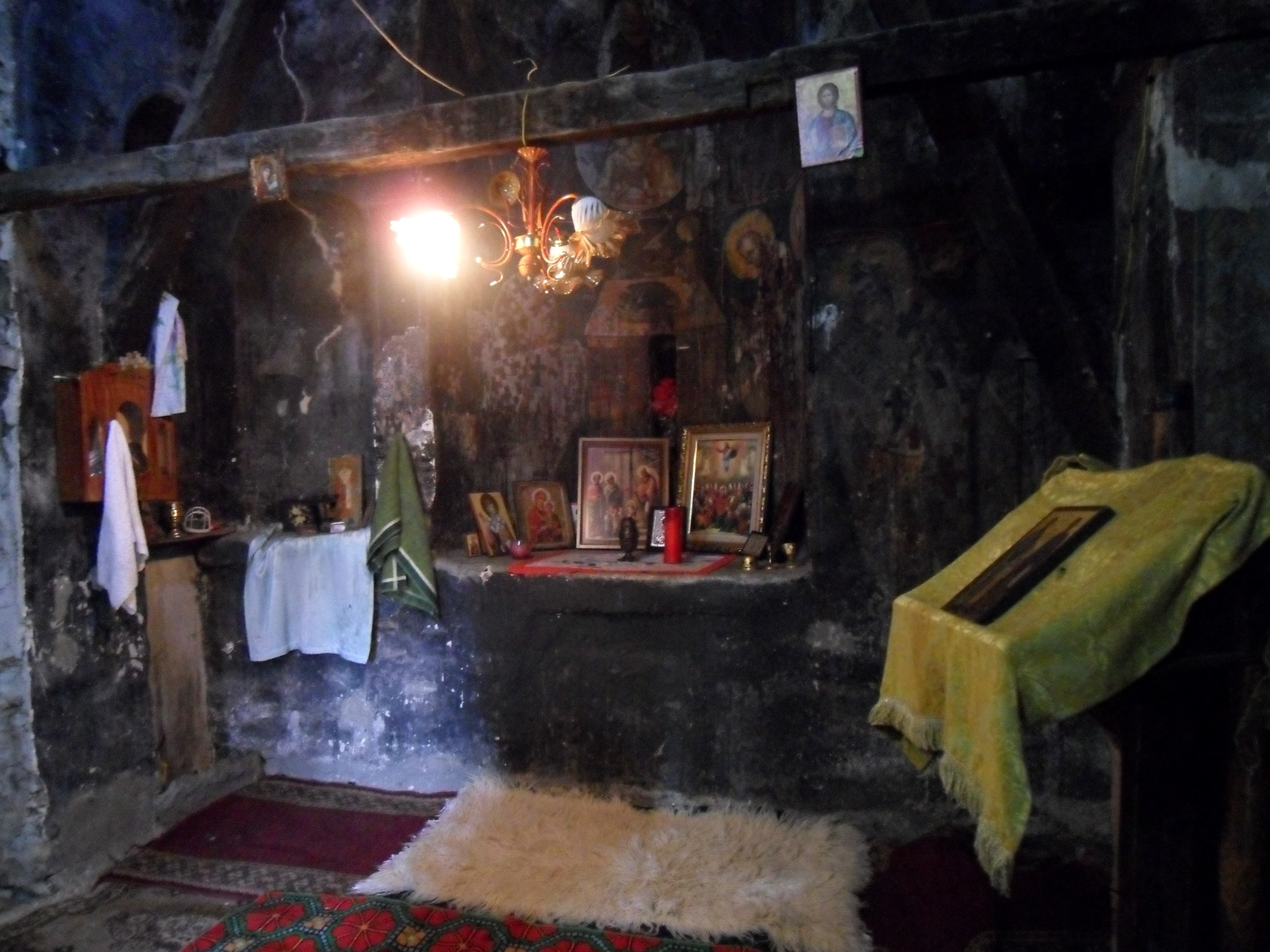 Church of Ristoz in Mborje